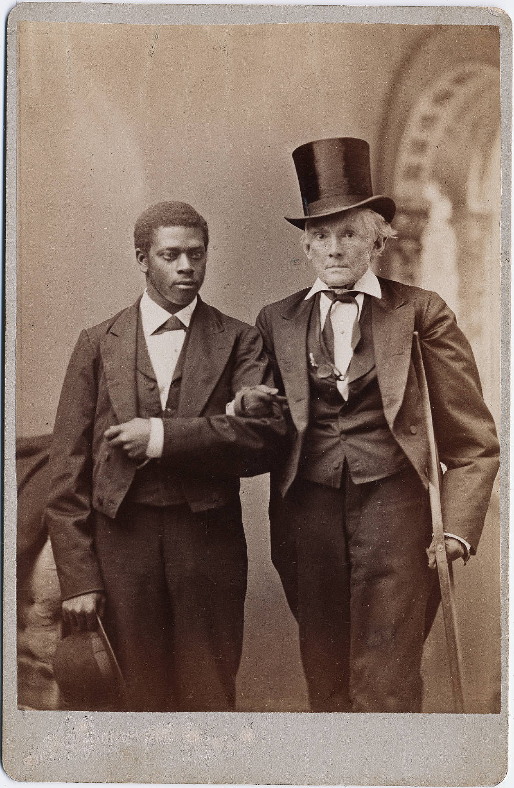 Cabinet card portrait of Georgia politician Alexander H. Stephens with a servant, formerly a slave. Photograph by Brady & Co., Washington, D. C. Courtesy of the Beinecke Rare Book & Manuscript Library, Yale University.[1]